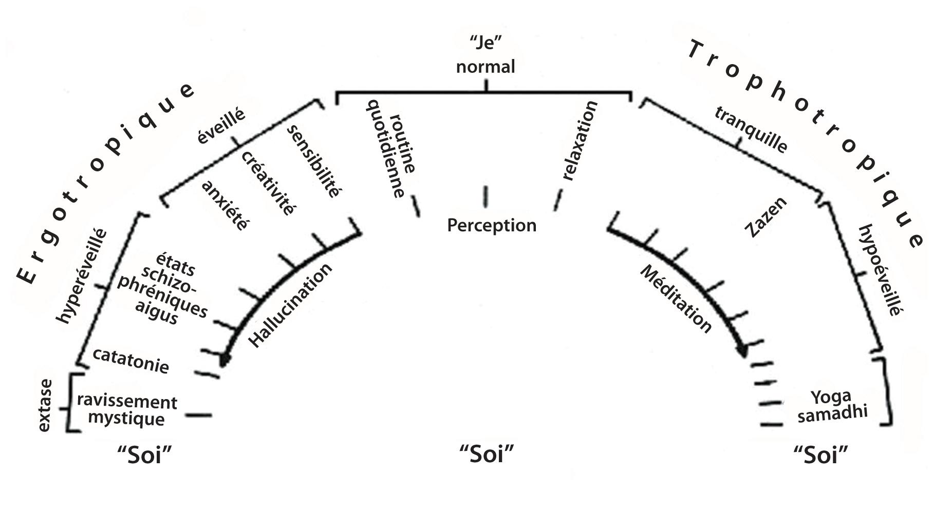 Personal work drawing in french for illustrating the extatic and meditative states of consciousness according to Roland Fischer betwwen the "I" (the ego) and the "Self" (of Jung)